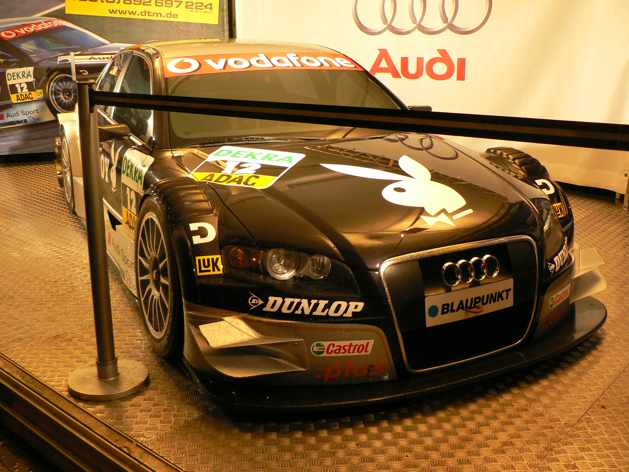 Description: Audi A4 DTM in exhibition at the 24 heures du mans 2006 - Le Mans (France) Date: 15 june 2006 Photographer/illustrator: Eyone Uploader: Eyone